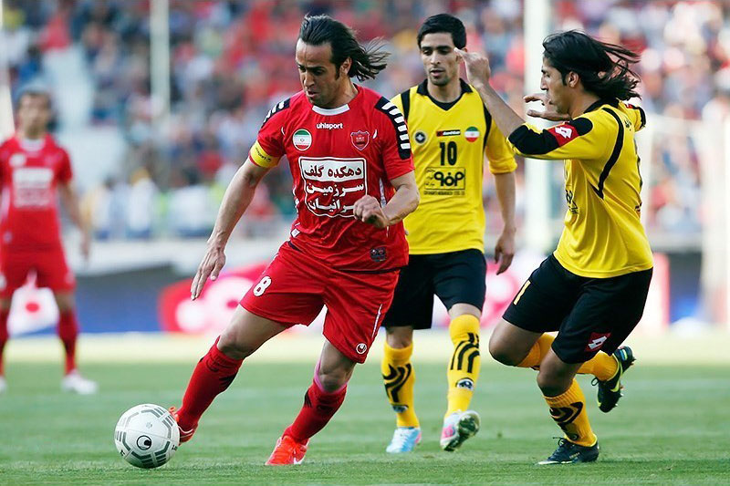 Ali Karimi, player of Perspolis FC, sprinting through Mohsen Irannejad and Hossein Papi, Sepahan F.C. players; Hazfi Cup final game.